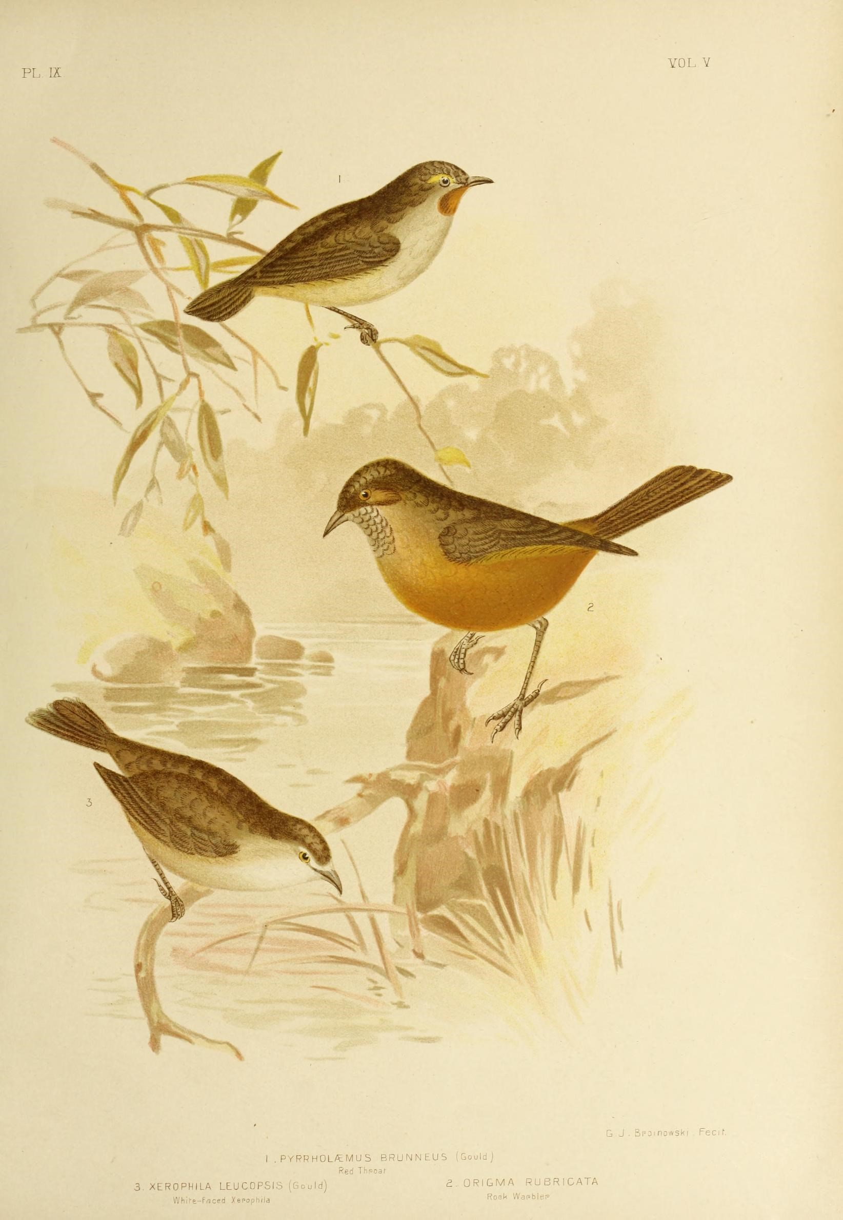 pl a VOL Y G J - Bpomowski . Fecif. I . PYRRHOL/EMUS BRUNNEUS (Gould) Red Thi»oaf 3. XEROPHILA LEUCOPSIS (Gould) 2.0RIGMA RUBRICATA Whihe-faced Xepophila HoaU WacbleP